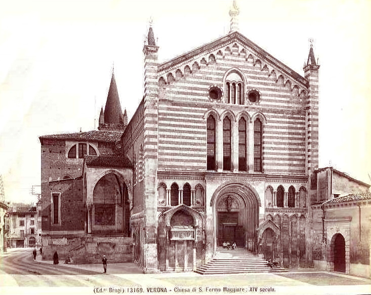 Carlo Brogi (1850-1925) - "Verona - San Fermo Maggiore church (14th century)". Catalogue # 13169.